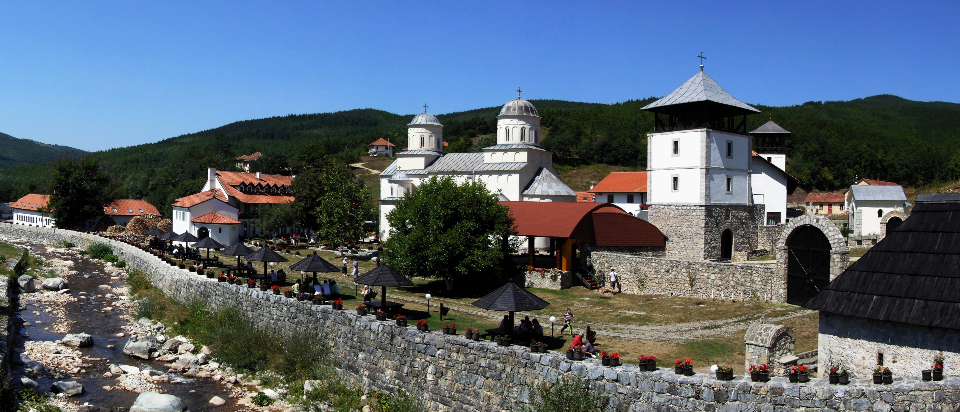 Mileševa monastery, Serbia